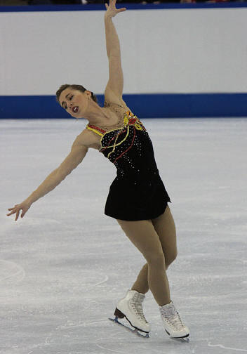 2009 Canadian Figure Skating Championships - Vanessa Grenier